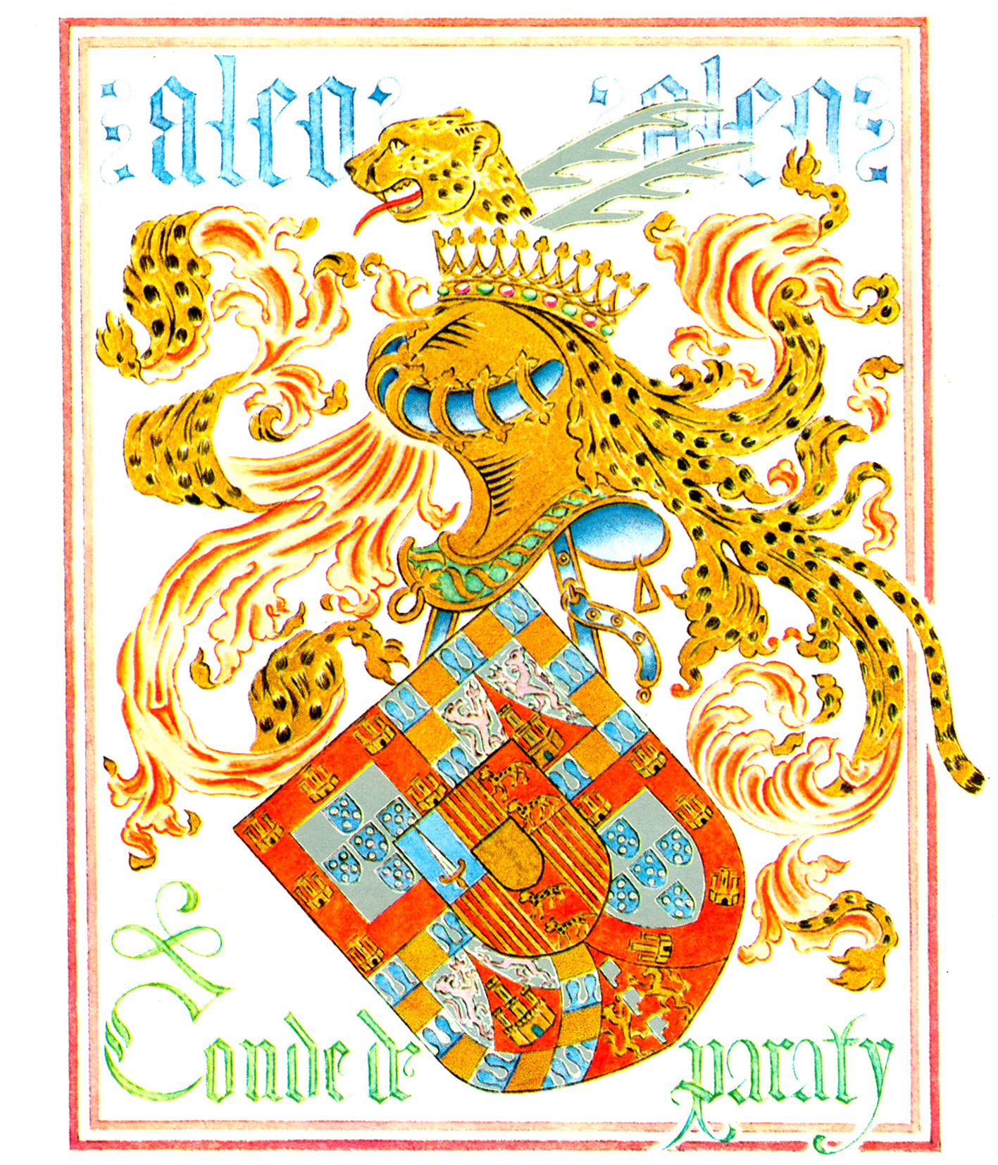 Count of Paraty coat of arms